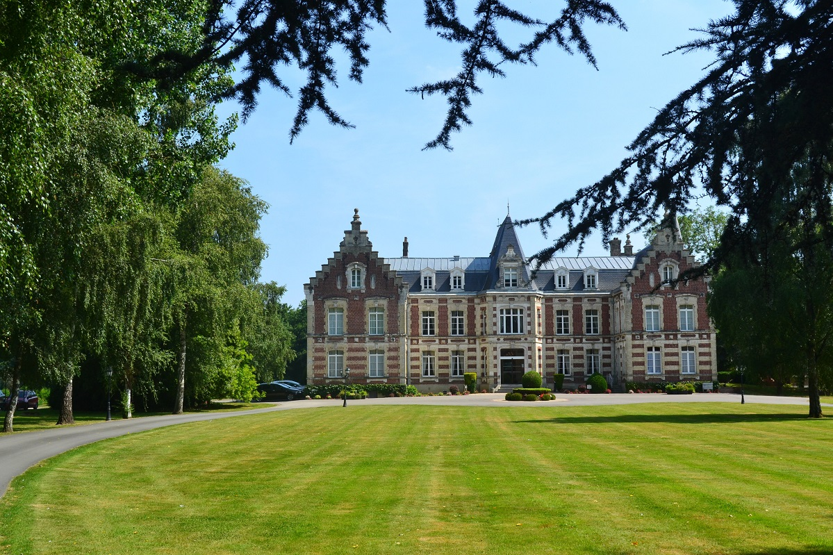 Le Château